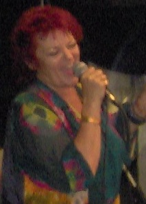 Dana Gillespie. Taken by Rod Ward at Trowbridge Village Pump Festival. 22nd July 2006.